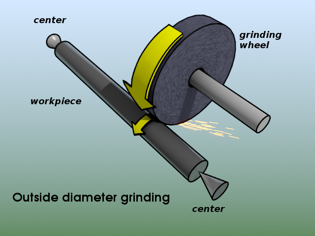 Schematic layout of the outside cylindrical grinding process.